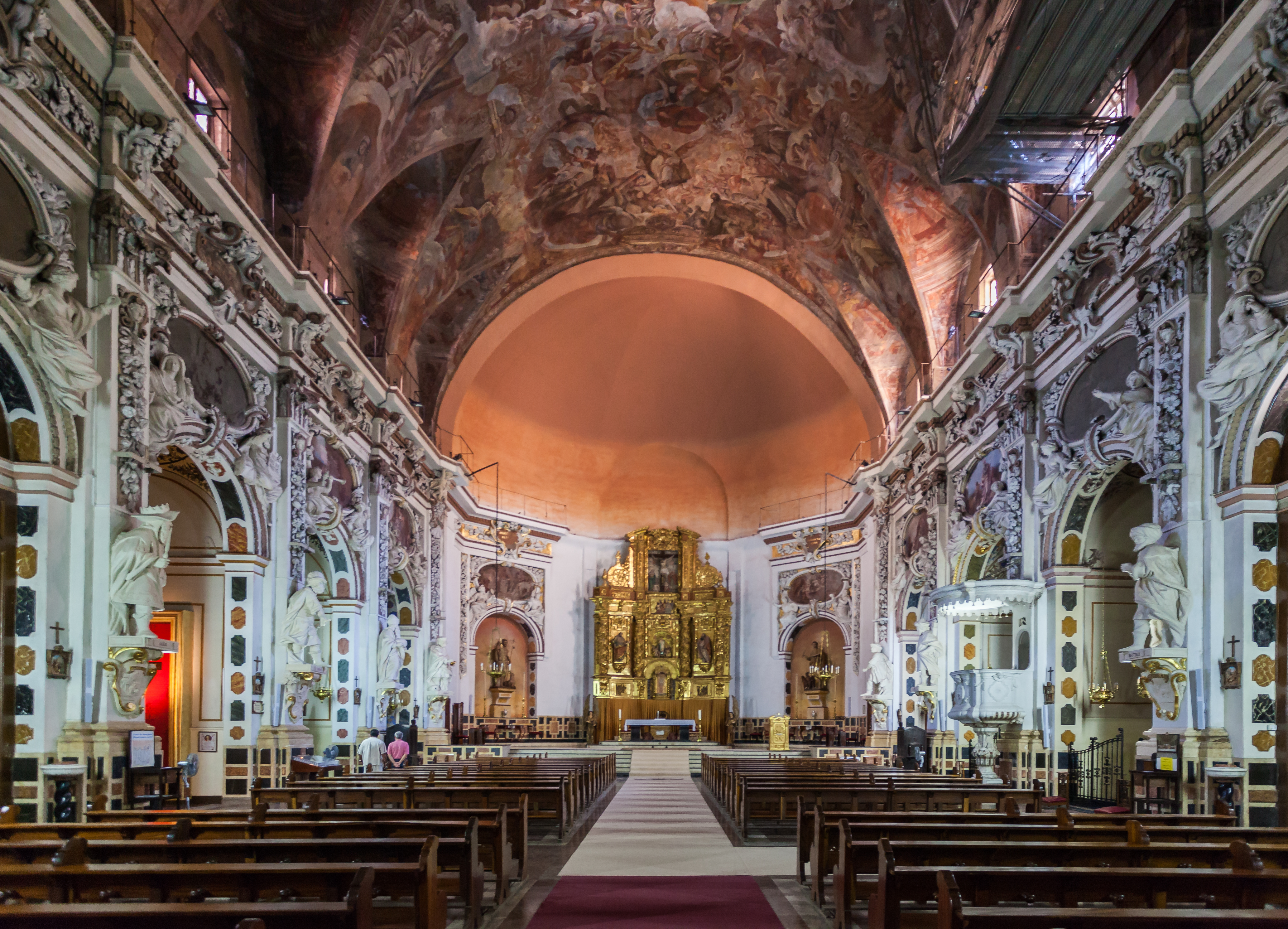 Juanes church, Valencia, Spain